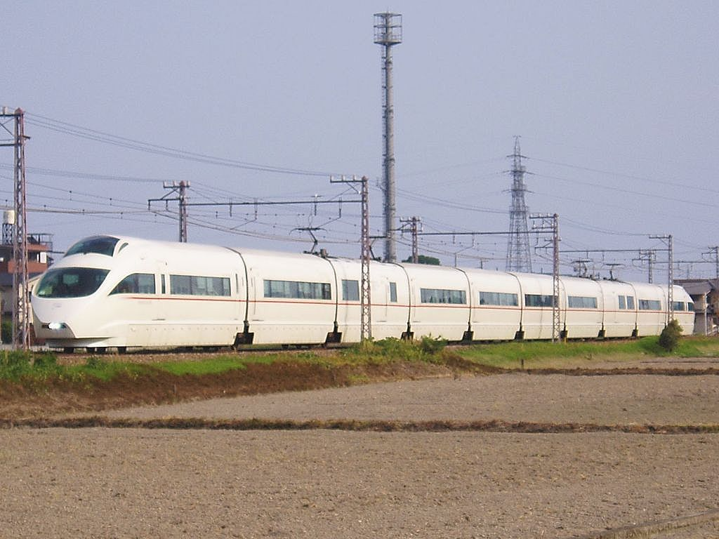 Odakyu Electric Railway Company, EMU Type 50000